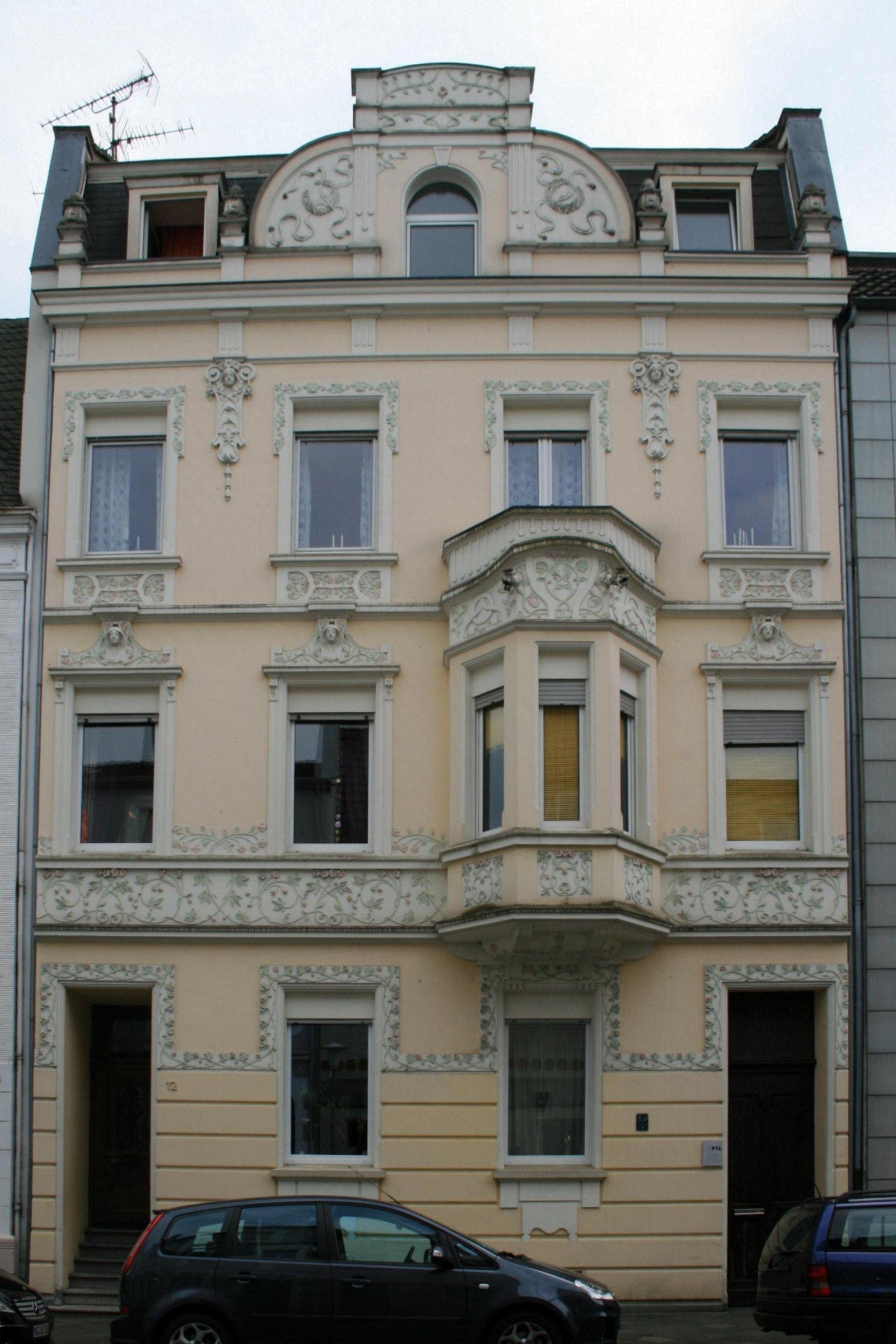 Cultural heritage monument No. H 029 in Mönchengladbach